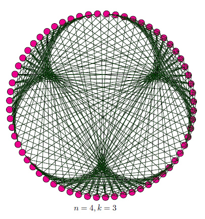 Undirected De_Bruijn graph for n=4, k=3